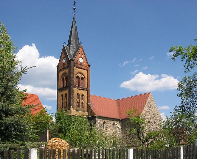 Stonechurch in Wiesenburg, start of construction around 1230, today’s spire built in 1879. The village Wiesenburg is a municipality in the district Potsdam-Mittelmark of the German state Brandenburg and is situated in the nature park Naturpark Hoher Fläming.